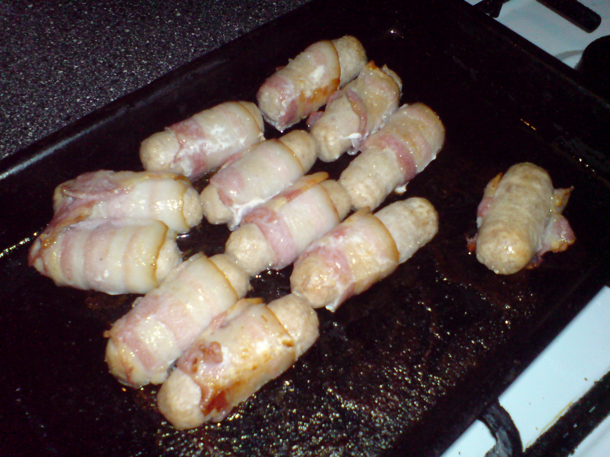 Pigs in Blankets UK Style. Uploaded by the photographer/author. These particular pigs in blankets are not cooked properly and could give the recipient a whole manner of none too favourable mischiefs.